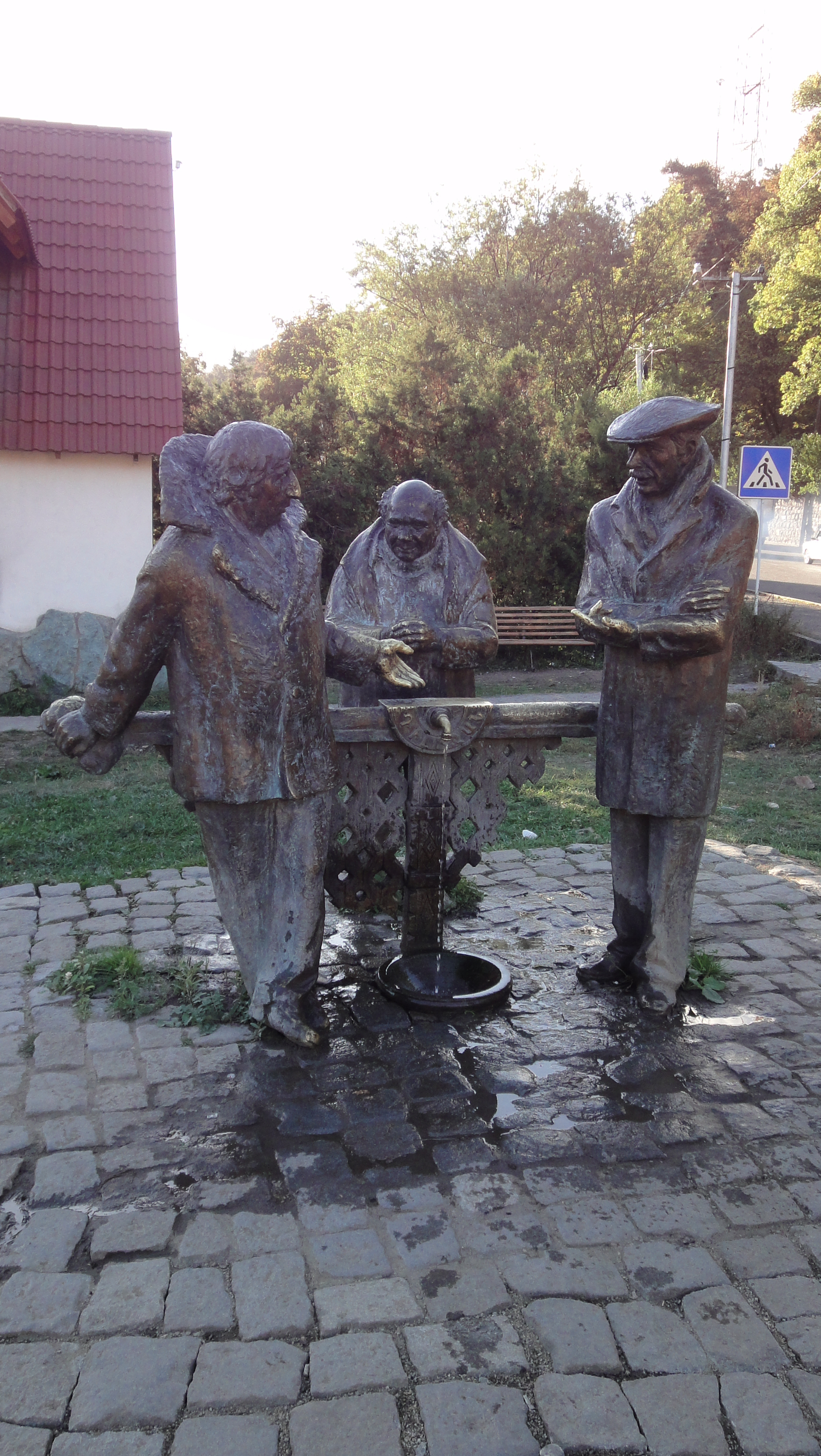 Sculpture dedicated to Mimino, Dilijan, Armenia